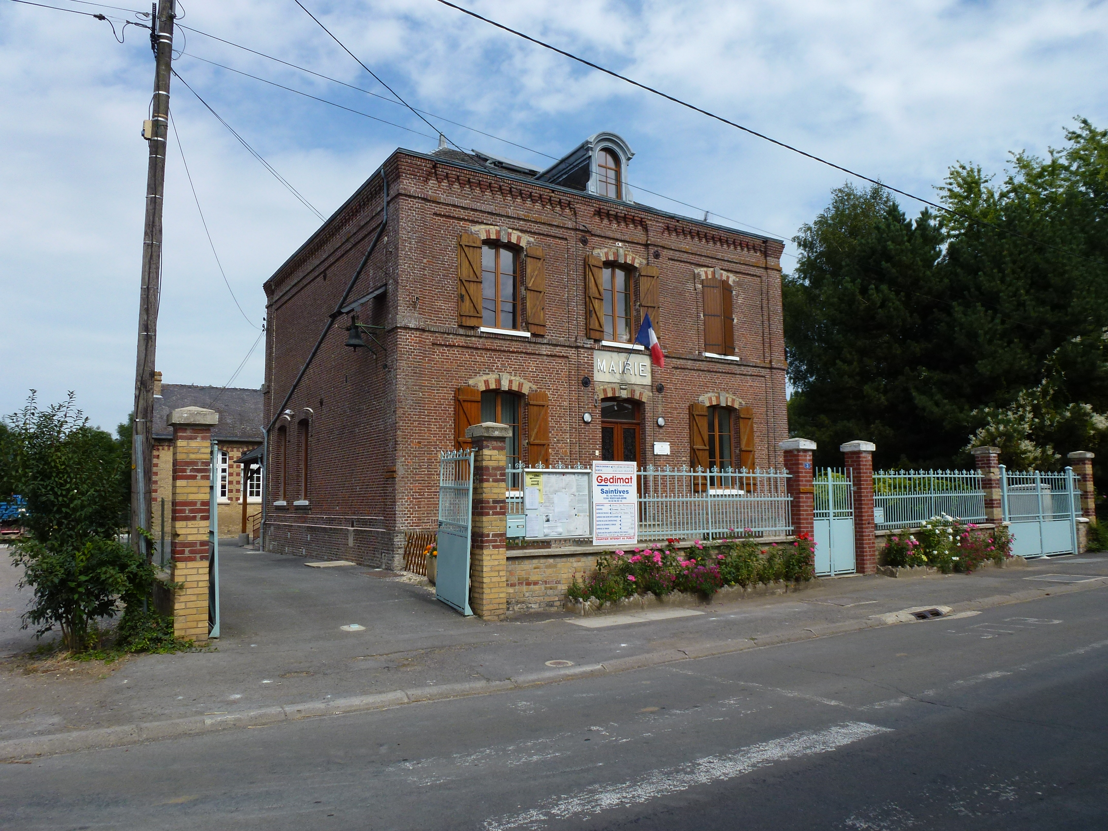 Renneville (Ardennes) mairie